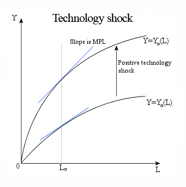 Technology shock diagram.